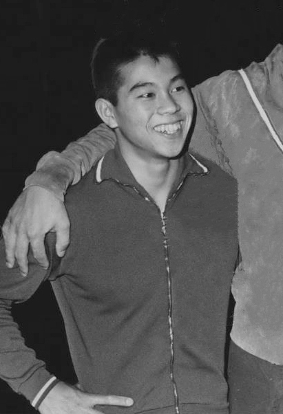 1965 Press Photo Gymnast Championships Lakewood, Makato Sakamoto & Arno Lascari